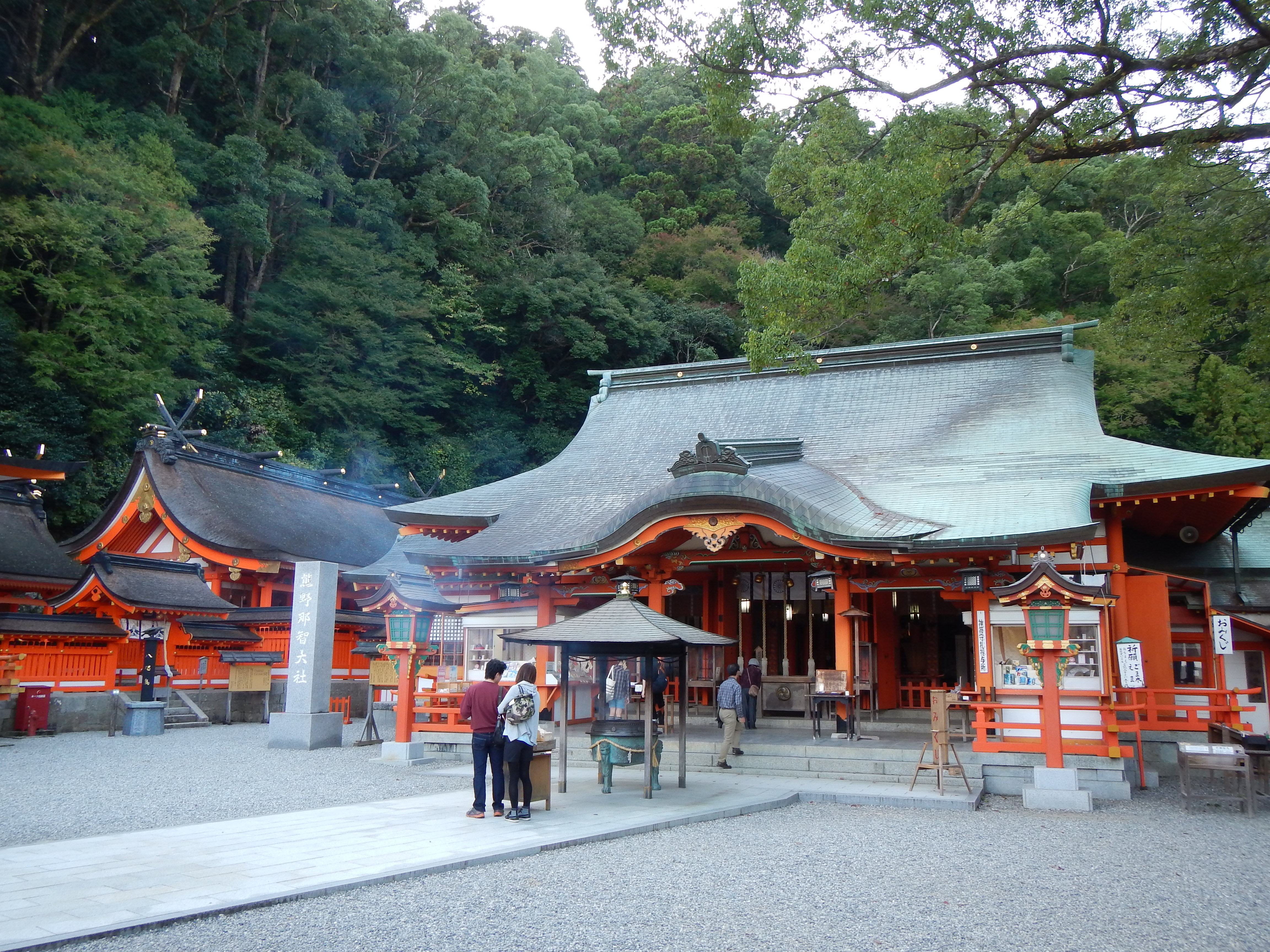 Kumano Kodo pilgrimage route Kumano Nachi Taisha World heritage 熊野古道 熊野那智大社